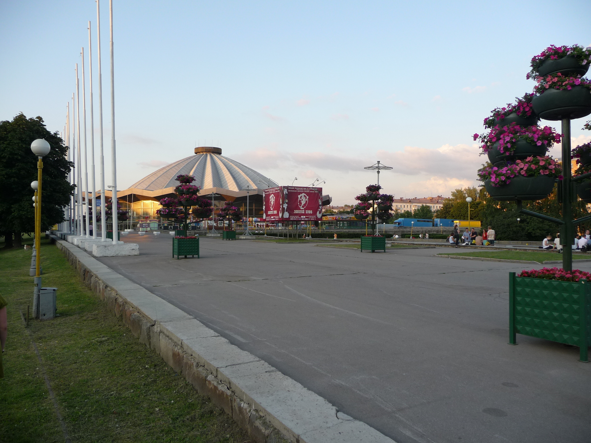 Moscow, Russia. Big Moscow Circus, view from the Vernadskogo Prospekt side.jpg